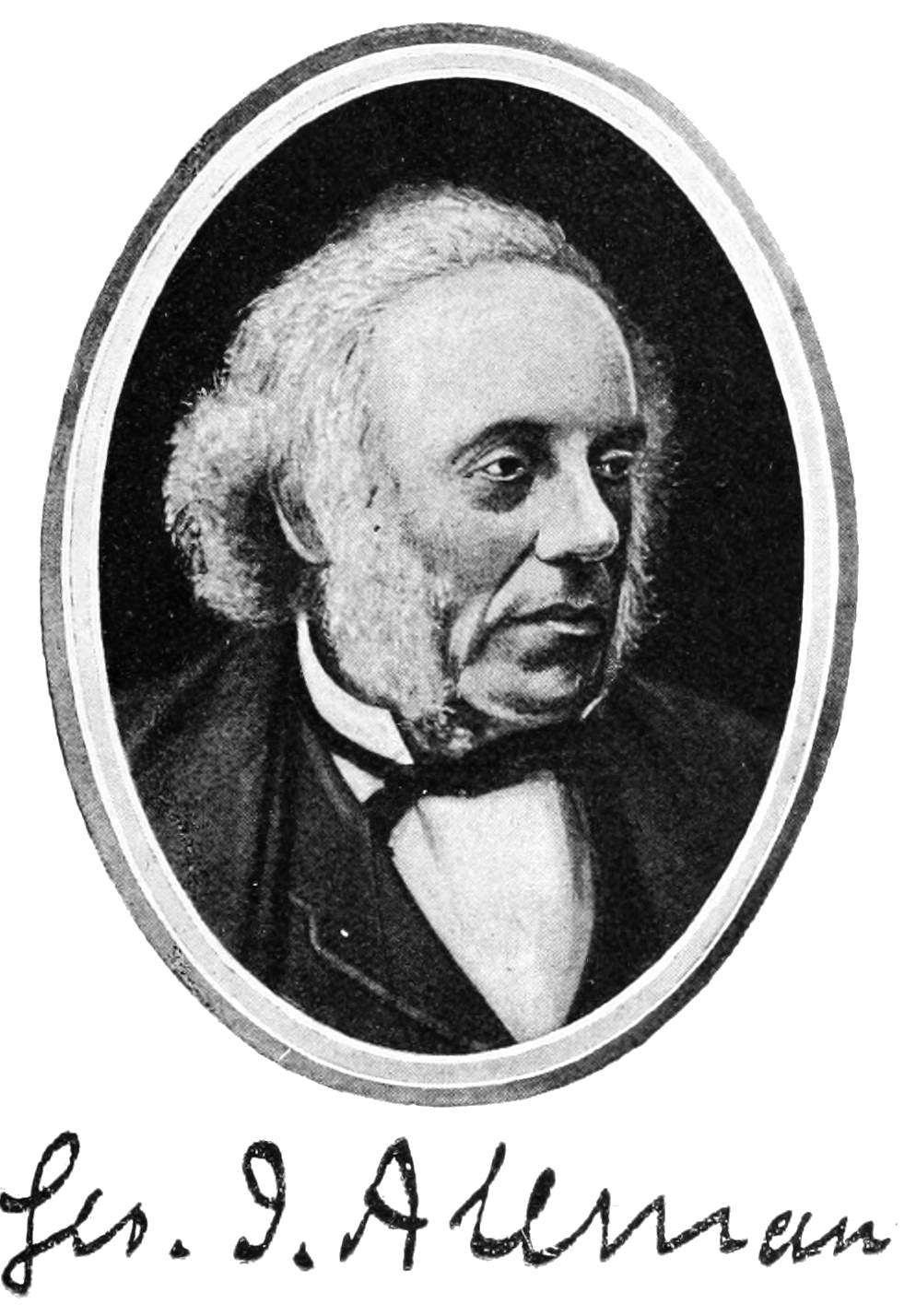 Portrait of George James Allman (1812–1898) and his signature.